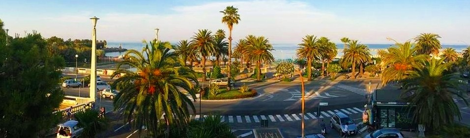 San Benedetto del Tronto, view of the north waterfront, Viale Trieste.